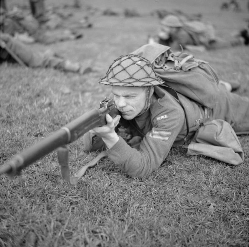 Allied Forces in the United Kingdom 1939-45 A Norwegian soldier takes aim with his rifle, Coatbridge, Scotland, 10 November 1940.